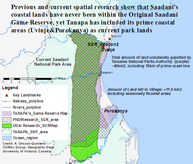 SGR Maps combined. Either UDar_1996 or current doctoral research SGR maps include Saadani's prime coastal lands. However,TANAPA's map version of the SGR has 3/4 of Saadani's village coastal lands included as part of the SGR.